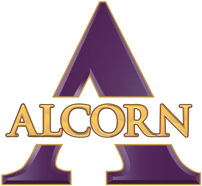 Logo for the Alcorn State Braves and Lady Braves.